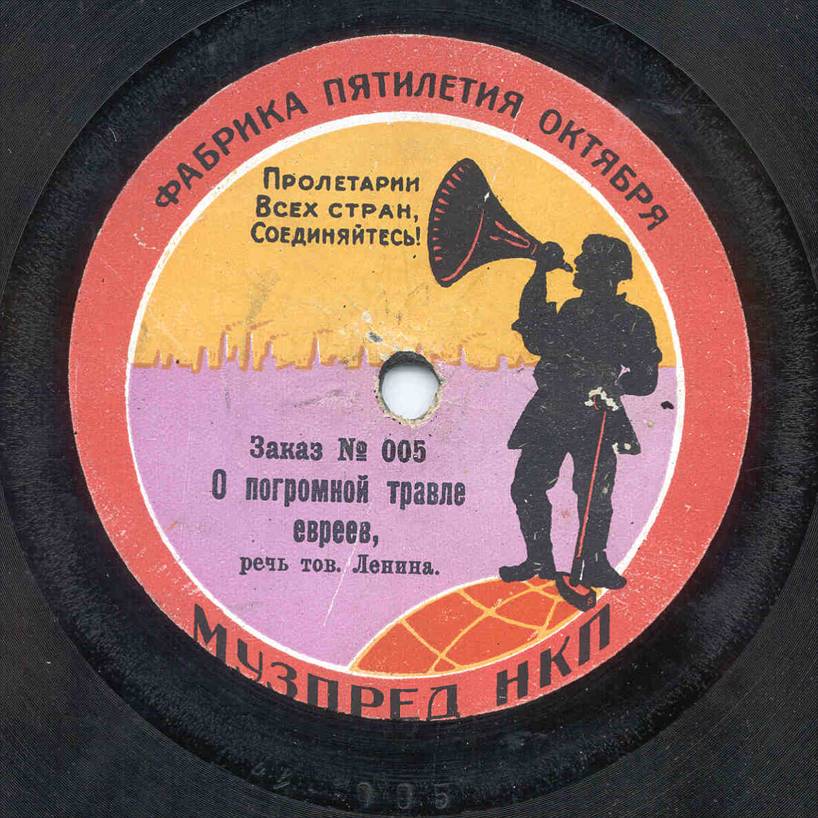 Due to the lack of paper ("paper hanger") in the early ears of the Soveit Russian Repulic it was decided to use the remaining gramophone factories to record political, medicine and cultural propaganda discs to distribute them for free amont mostly illiterate population. This is disc cover is for Lenin speech about Anti-Jewish Pogroms.